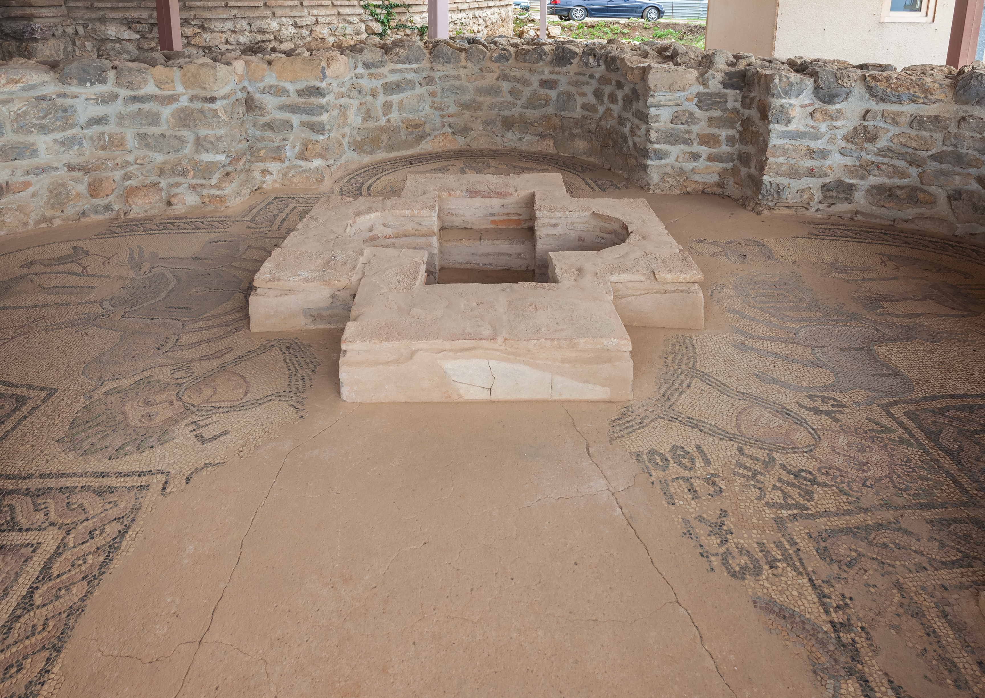 Plaosnik archeological site, Ohrid, Macedonia